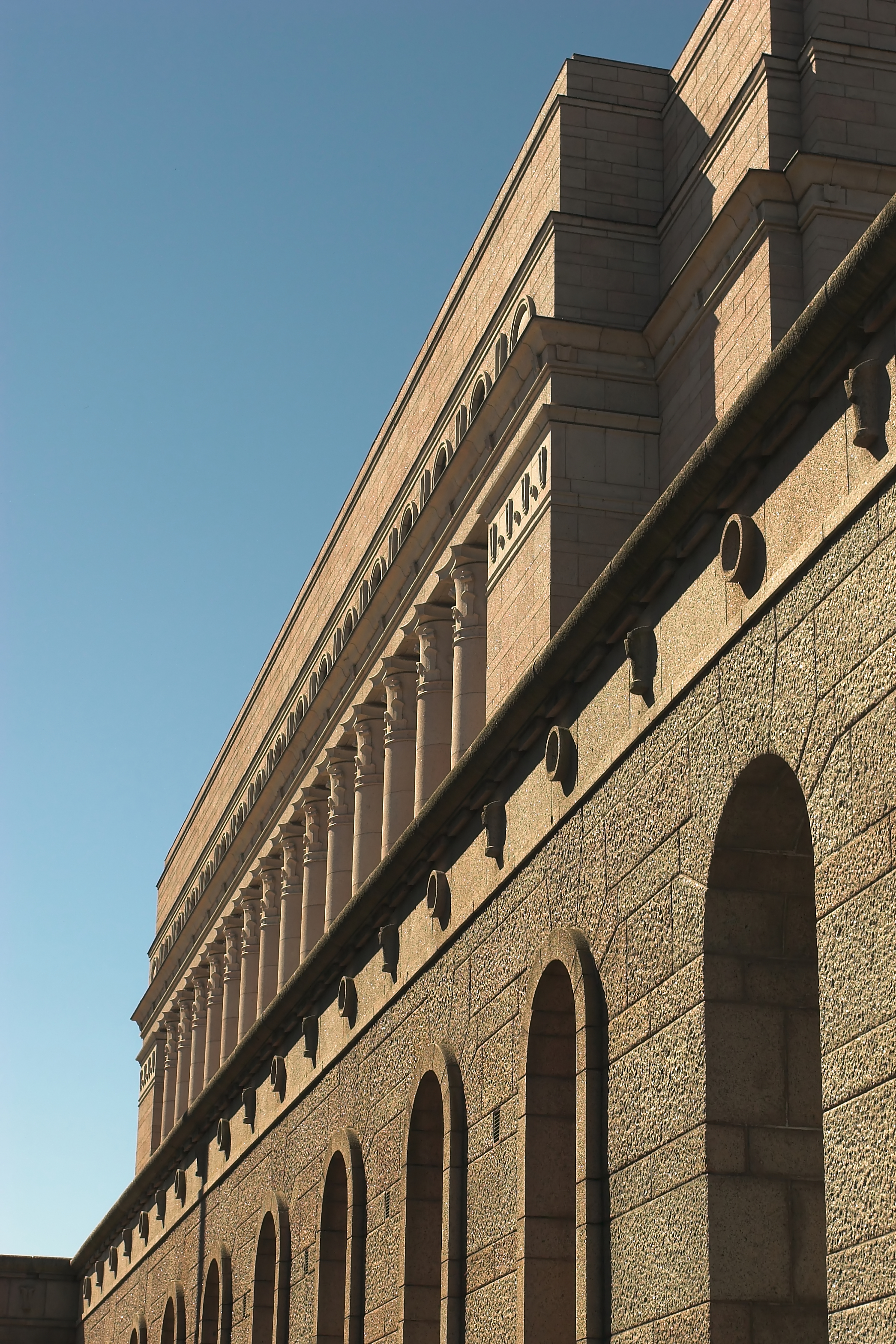 Wall of the Parliament House of Finland.